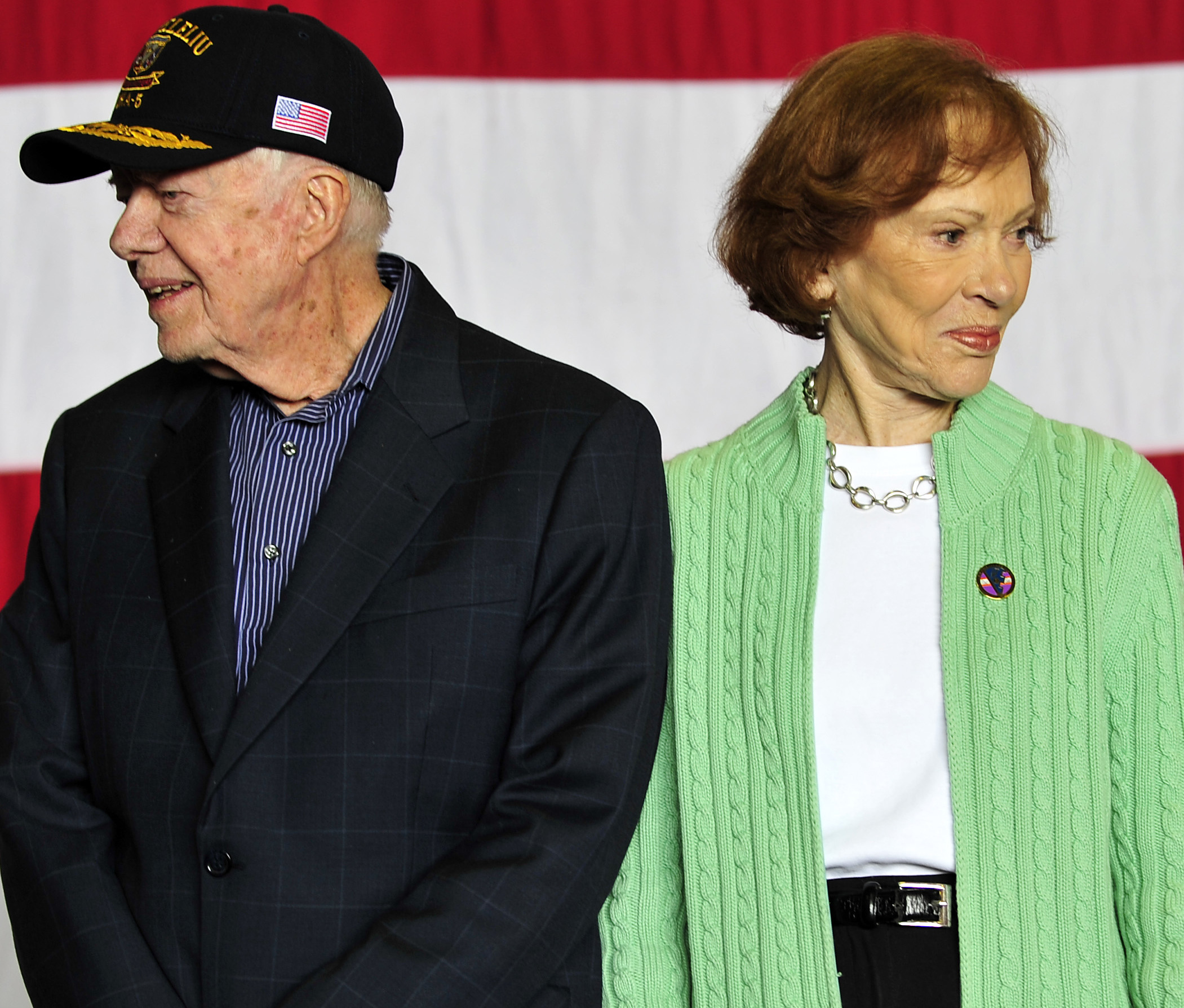 120310-N-QL961-010 SAN DIEGO (March 10, 2012) Former President Jimmy Carter and Former first lady Rosalynn Carter receive applause during a lunch hosted aboard the amphibious assault ship USS Peleliu (LHA 5). Carter and his foundation's nearly 250 guests and flag officers, hosted by Vice Adm. Gerald Beaman, commander of U.S. 3rd Fleet, spent the day visiting with Sailors and Marines, seeing various areas of the ship and aircraft. (U.S. Navy photo by Mass Communication Specialist 2nd Class Palovich/Released) Join the conversation